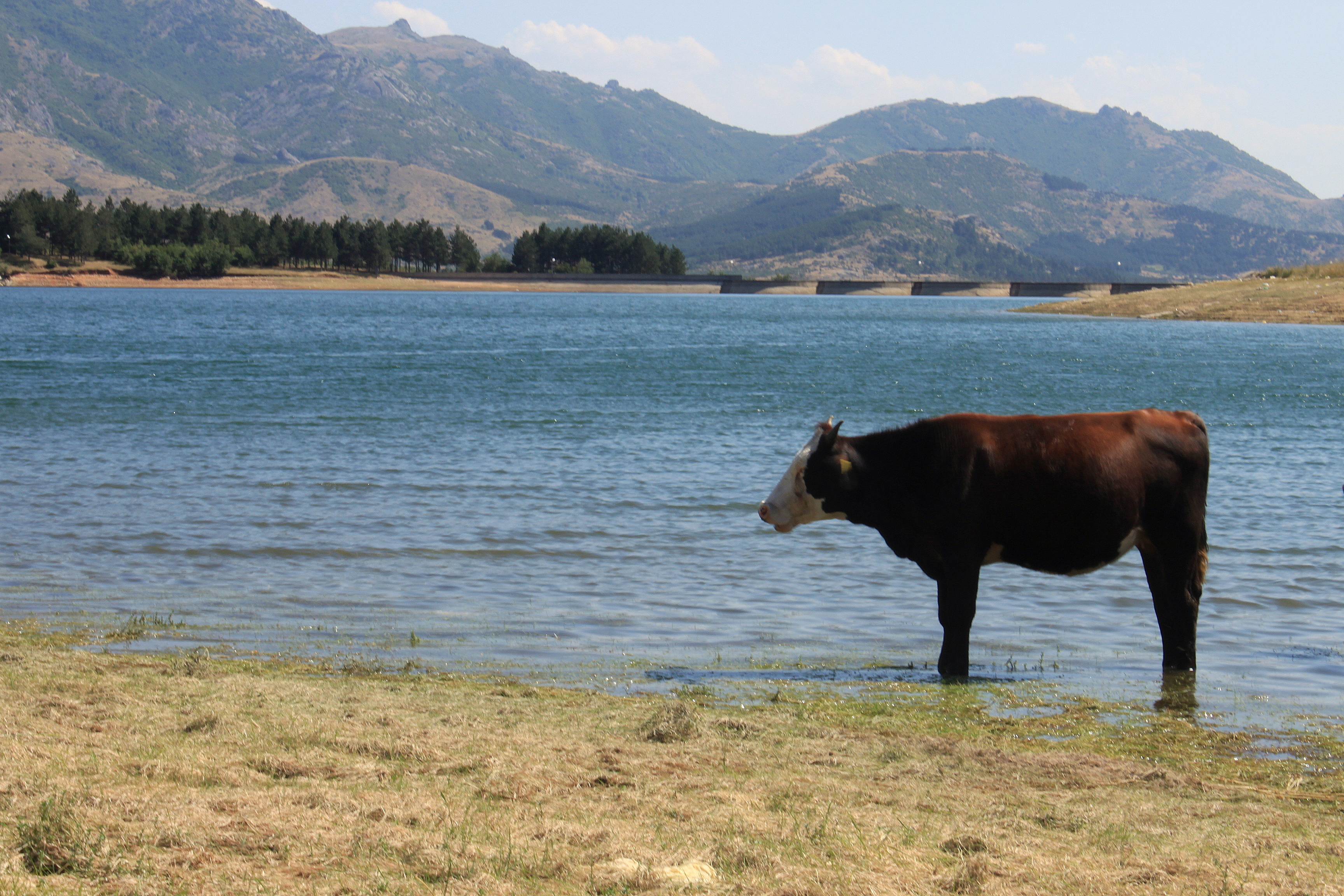 Animals in North Macedonia.